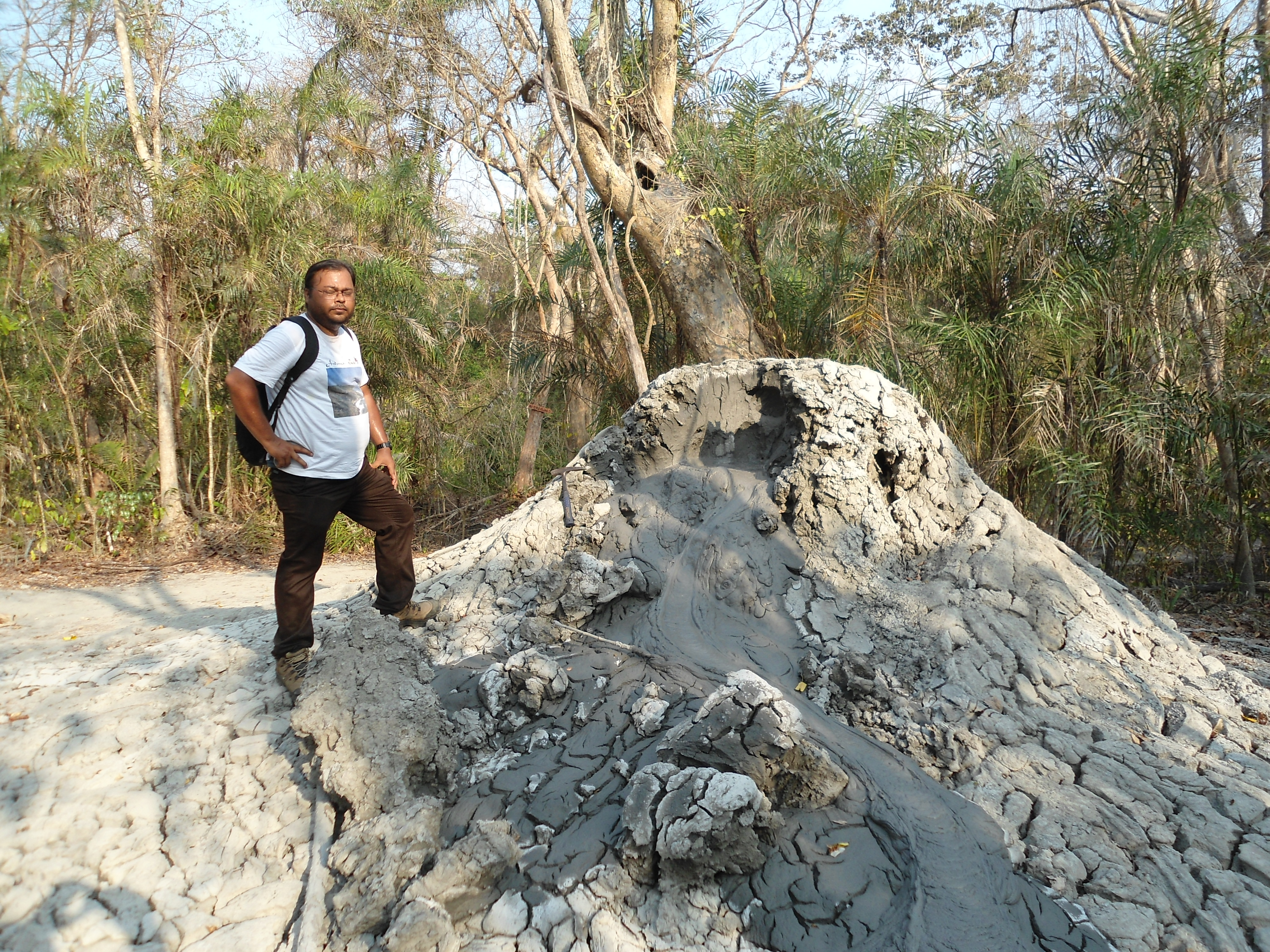 Diglipur MV